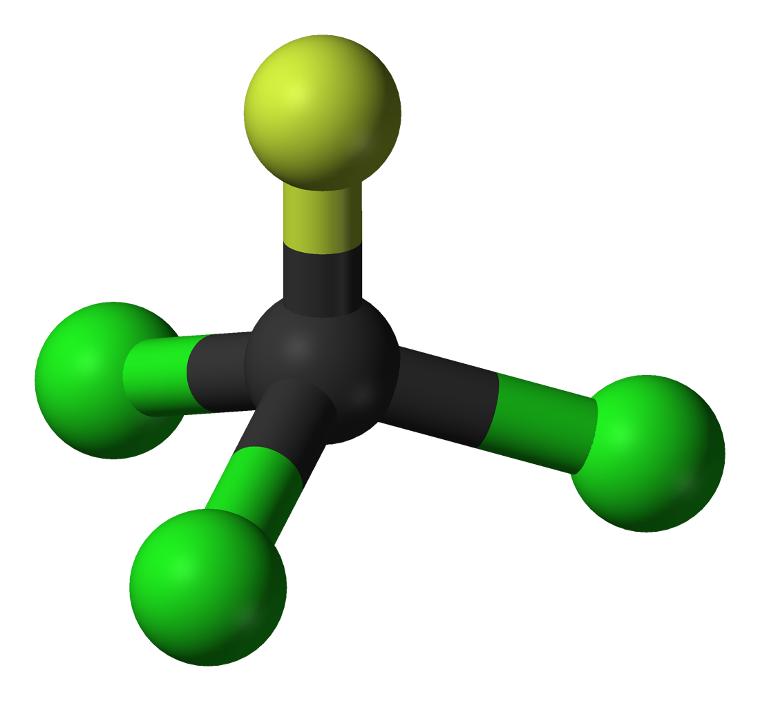 Ball-and-stick model of the chemical compound trichlorofluoromethane